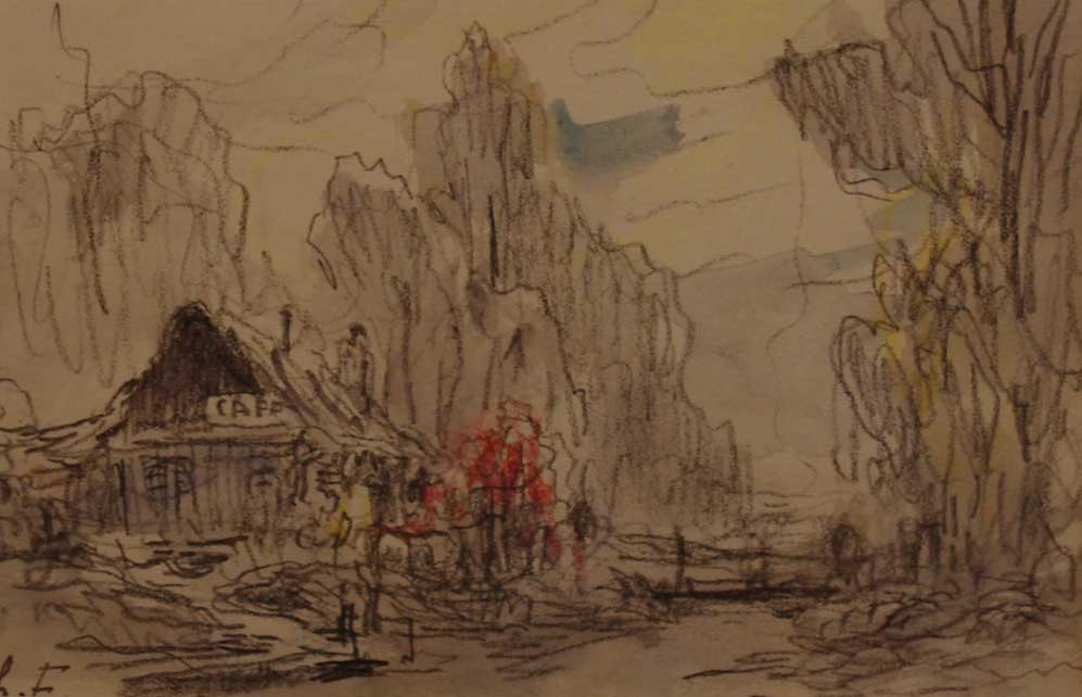 Paint of Henri Foreau